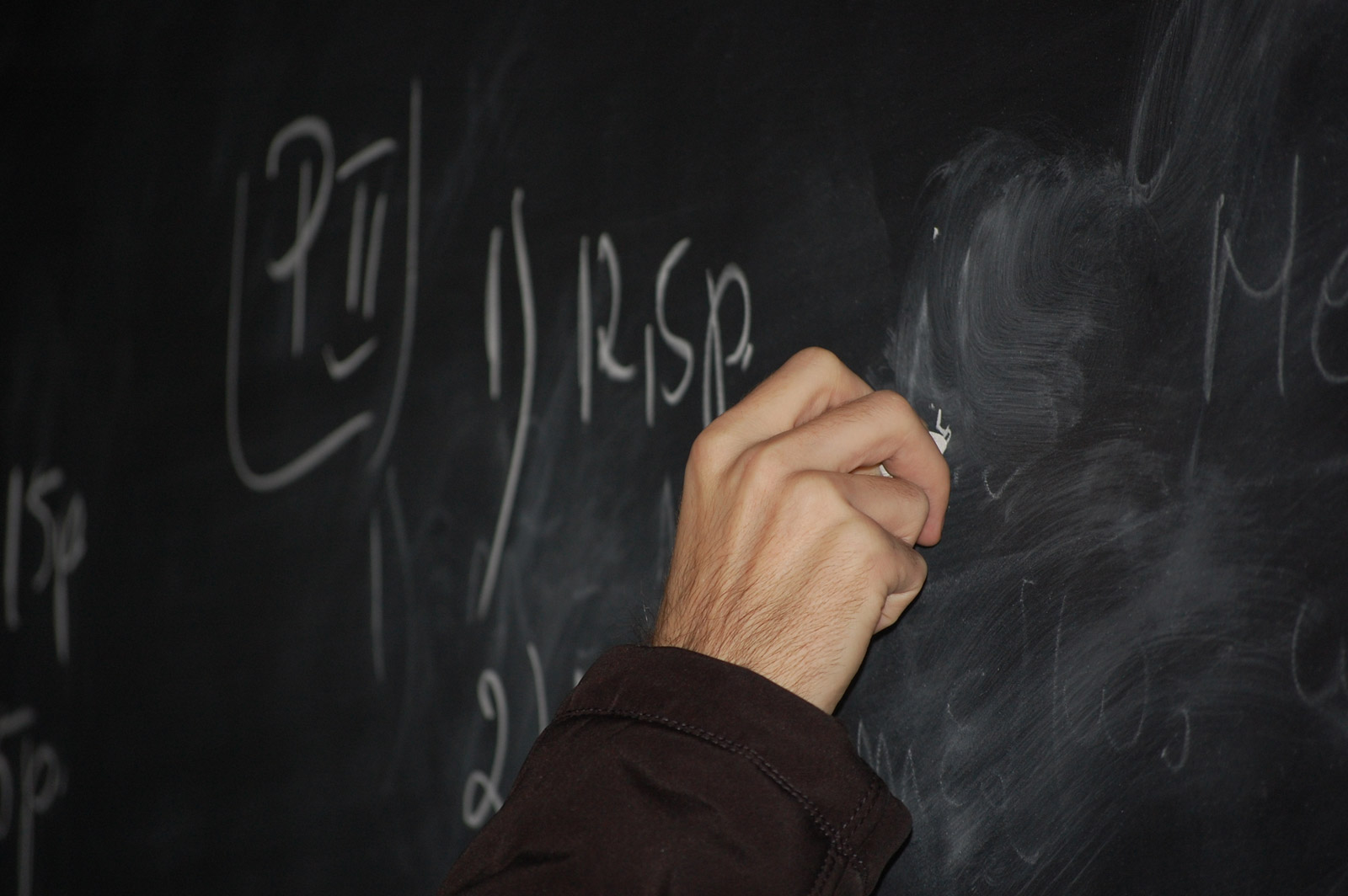 Photography of a teacher writing on blackboard at school